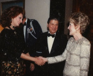 Sophia Loren greets Nancy Reagan as Ambassador Maxwell M. Rabb looks on at the ambassador's residence, Villa Taverna, in Rome